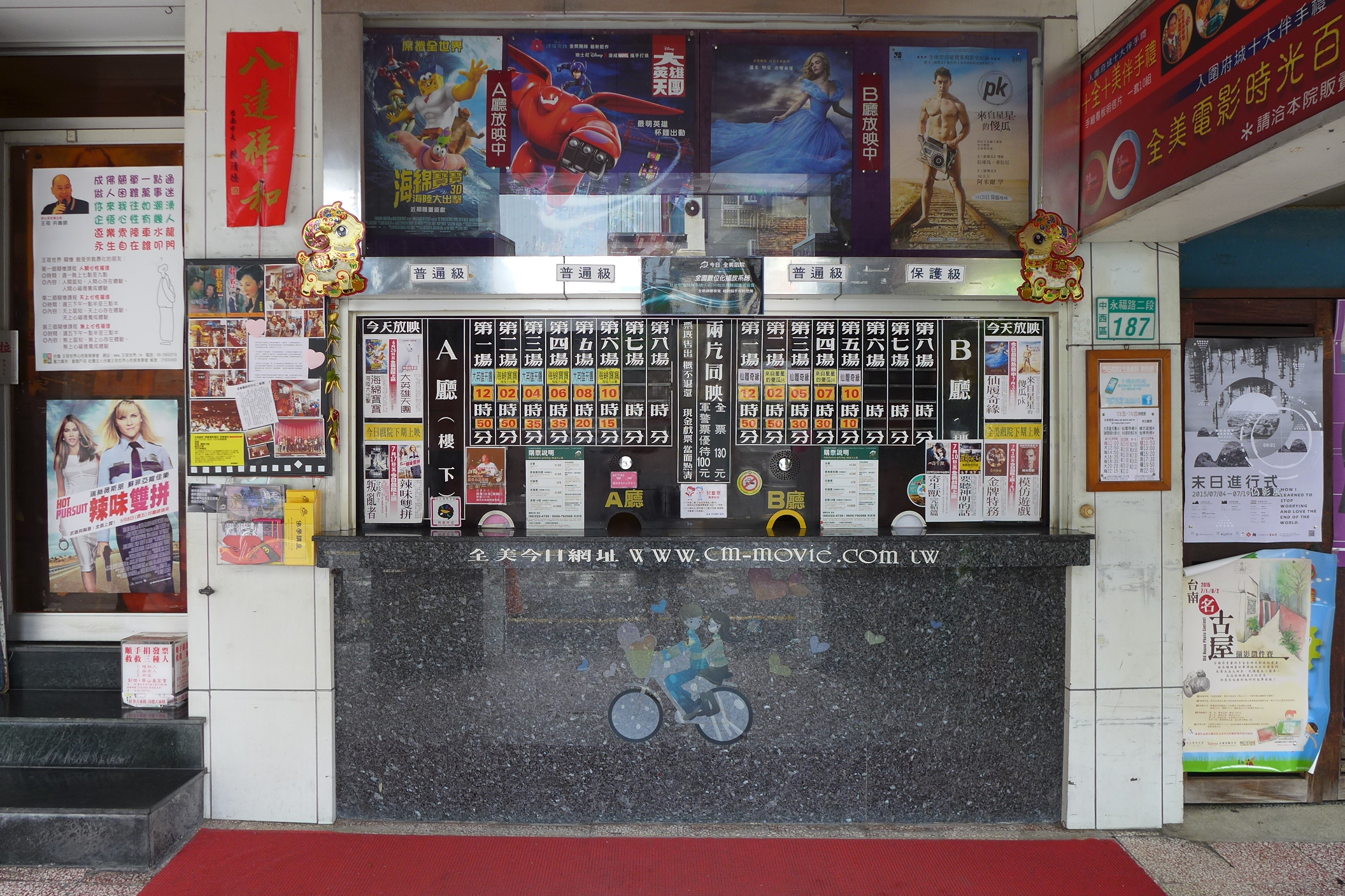 Chin Men Theater ticket window.中文（台灣）: 全美戲院售票處。